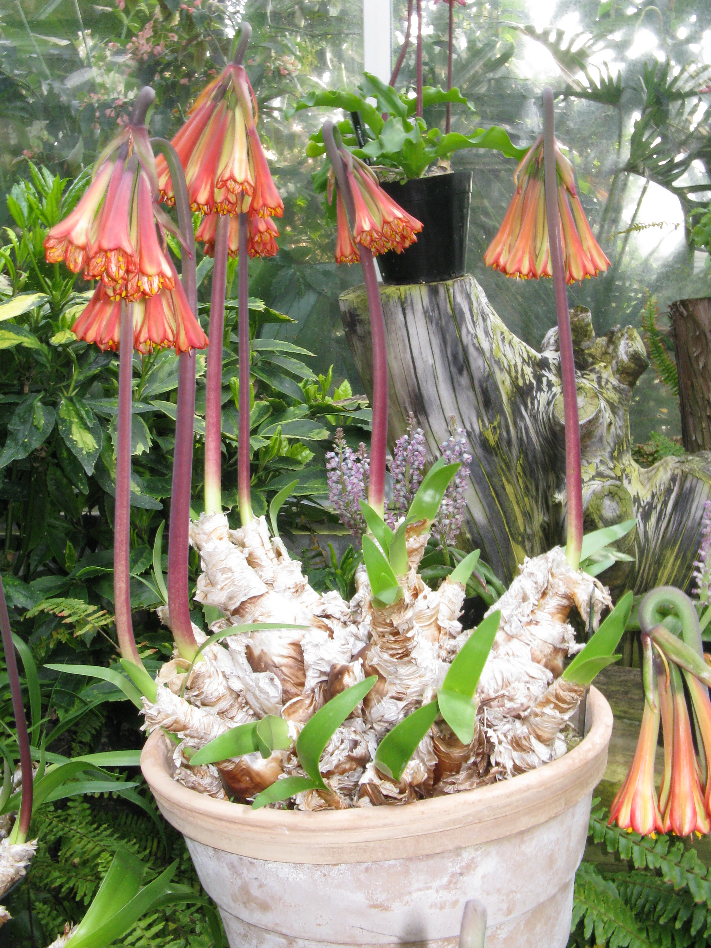 Cyrtanthus falcatus Scientific name Cyrtanthus falcatus Place:Osaka Prefectural Flower Garden, Osaka, Japan